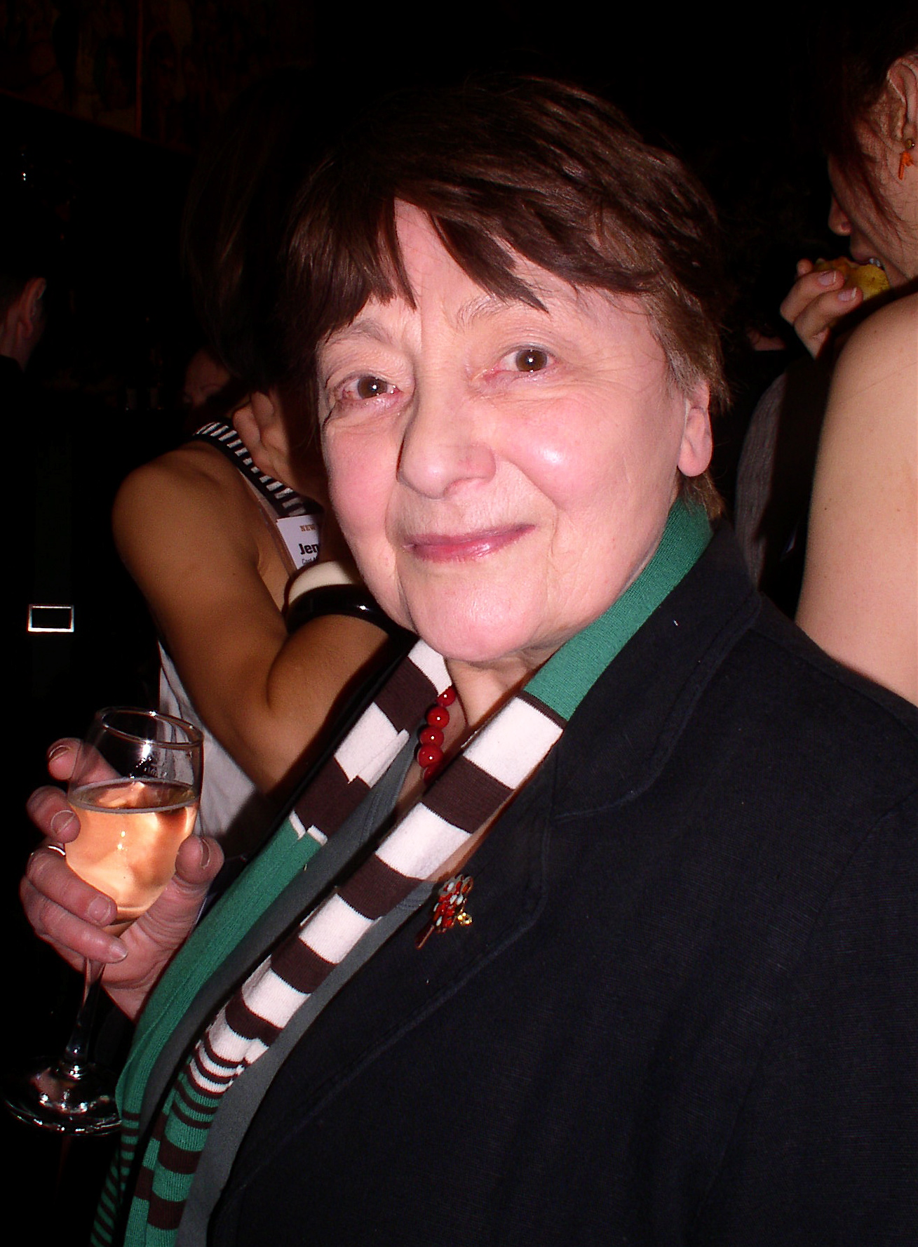 Auriol Smith was attending The Stage New Year party at the Drury Lane Theatre and I took this portrait expressly for use on Wikipedia and to replace the existing, unsatisfactory portrait